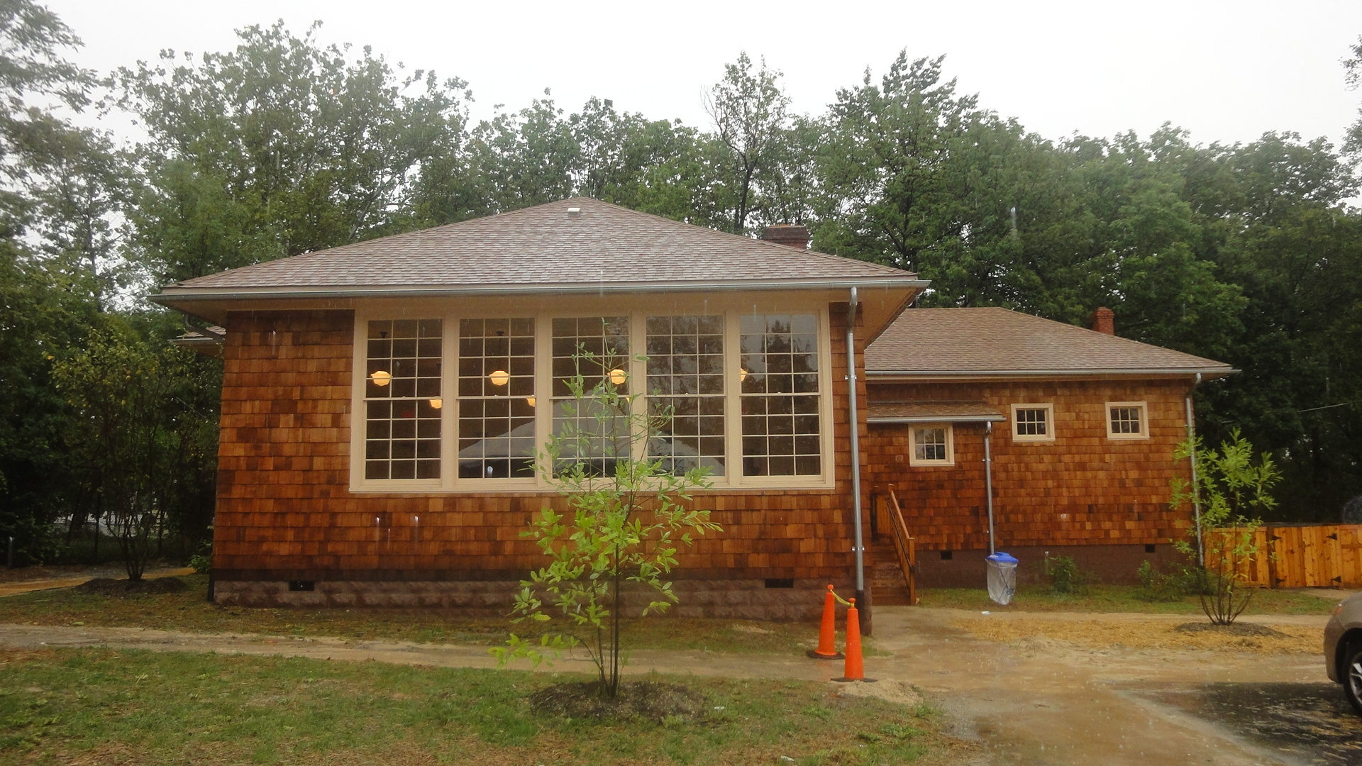 An exterior image of the Ridgeley Rosenwald School after its restoration. It was built in 1927 to serve the Black community in Capitol Heights. In 2011 it was restored and reopened as a museum. This site was selected for Endangered Maryland in 2007.